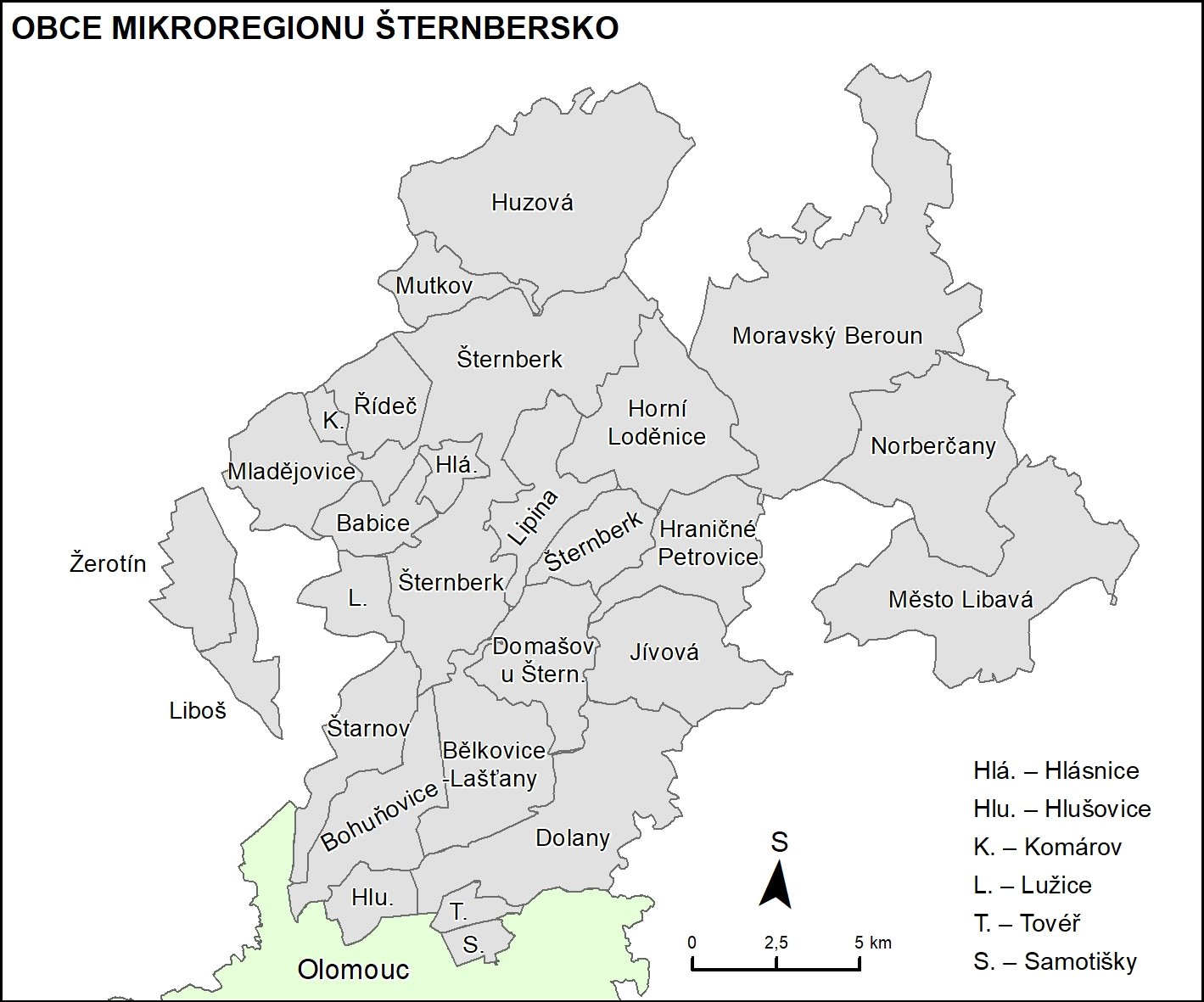 mapa Mikroregionu